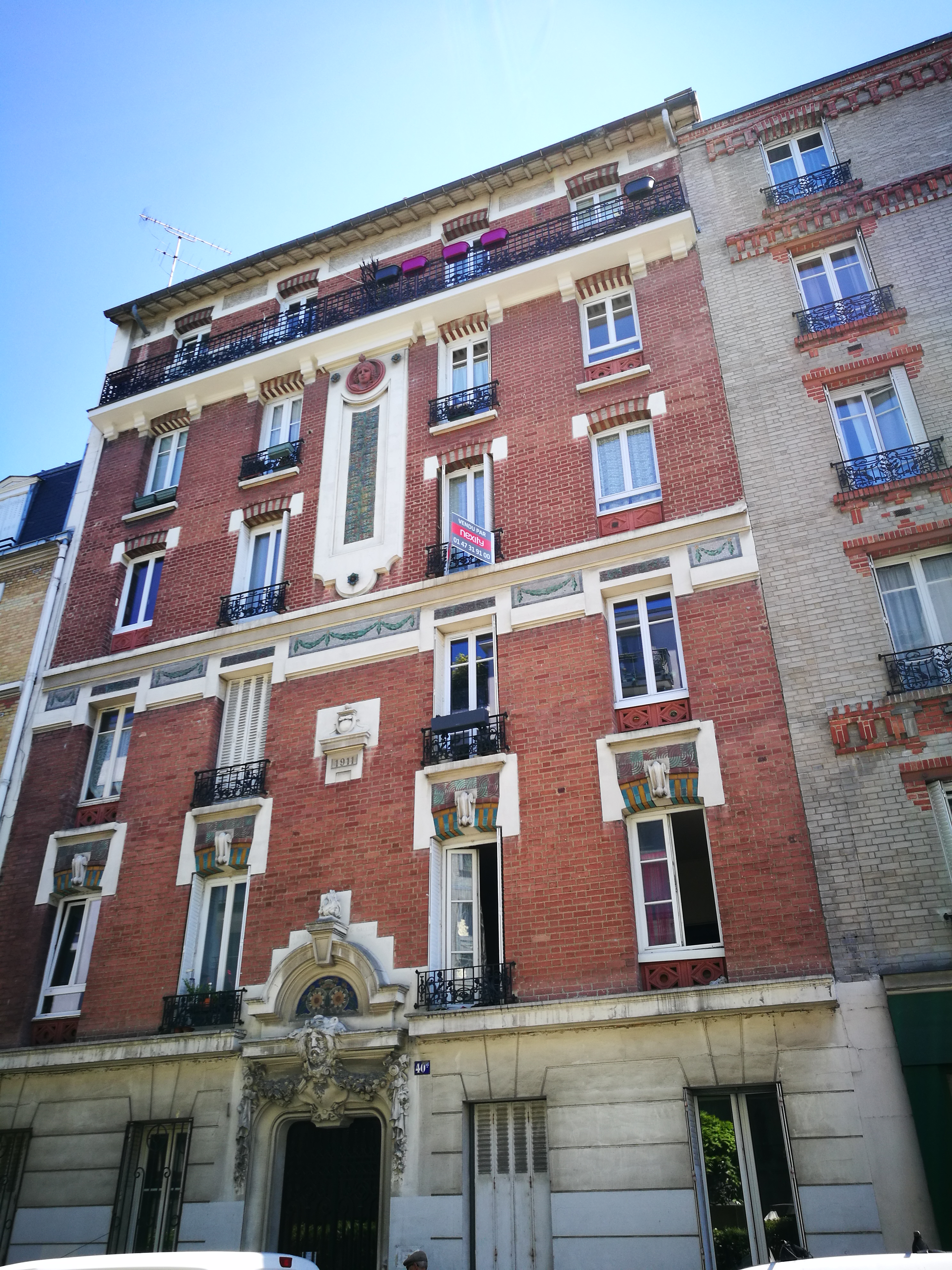 40 bis, Rue Villeneuve, Clichy, France